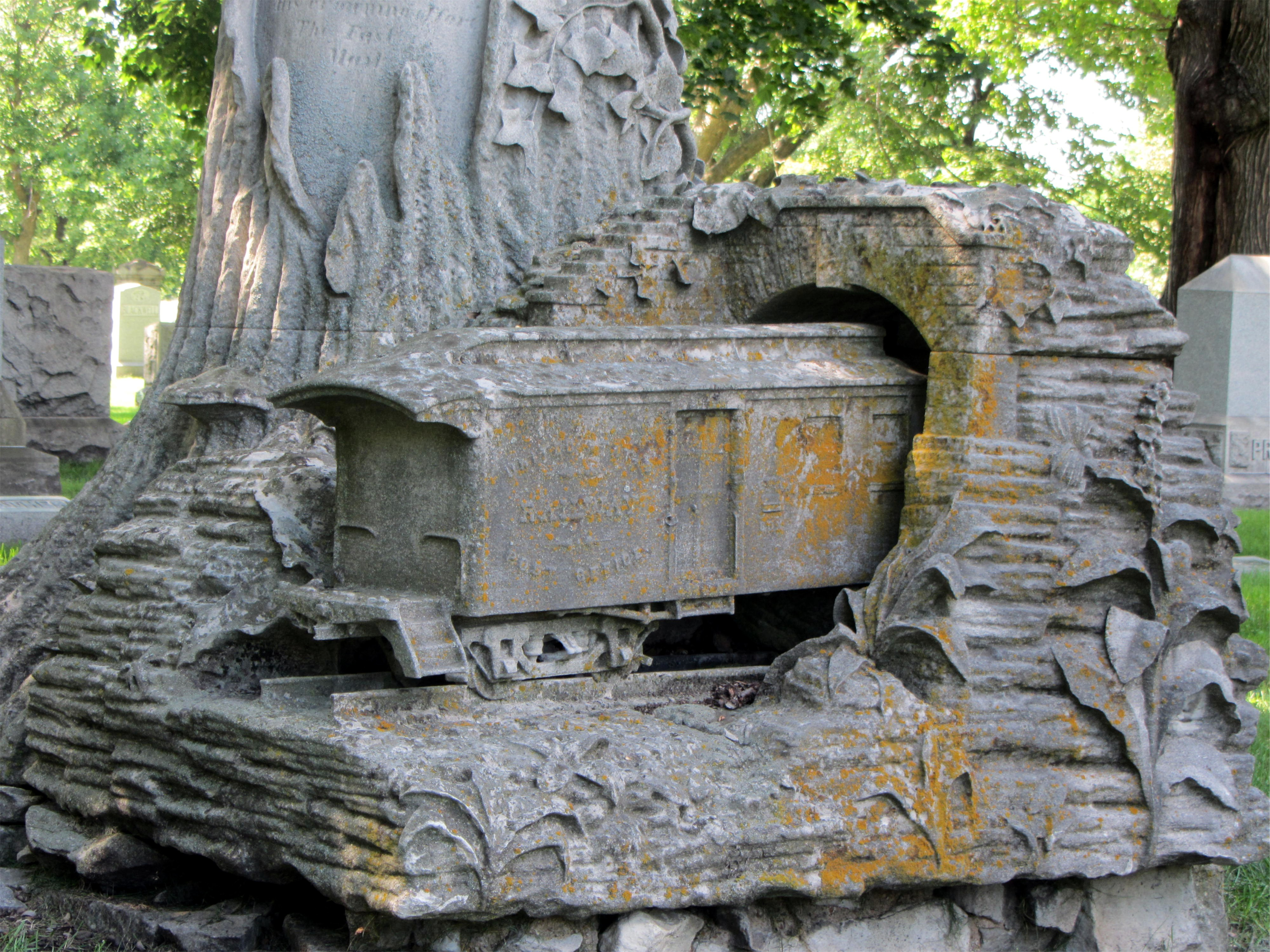 Stove carving of a tree and railway mail car at the grave of George S. Bangs in Rosehill cemetery, Chicago, Illinois.